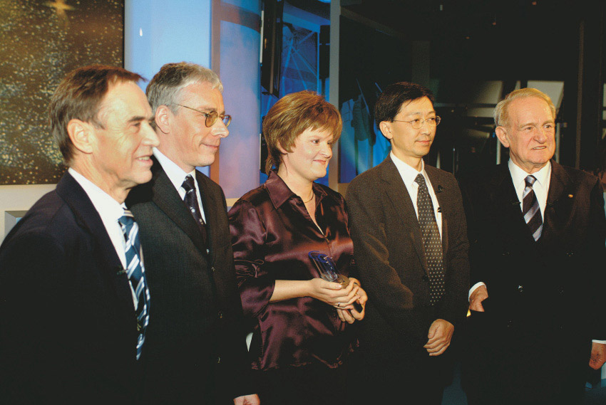 The liquid crystal researchers from Merck KGaA, Matthias Bremer, Melanie Klasen-Memmer, and Kazuaki Tarumi, at the award ceremony where they received th German Future Prize by the German Federal President, Johannes Rau.